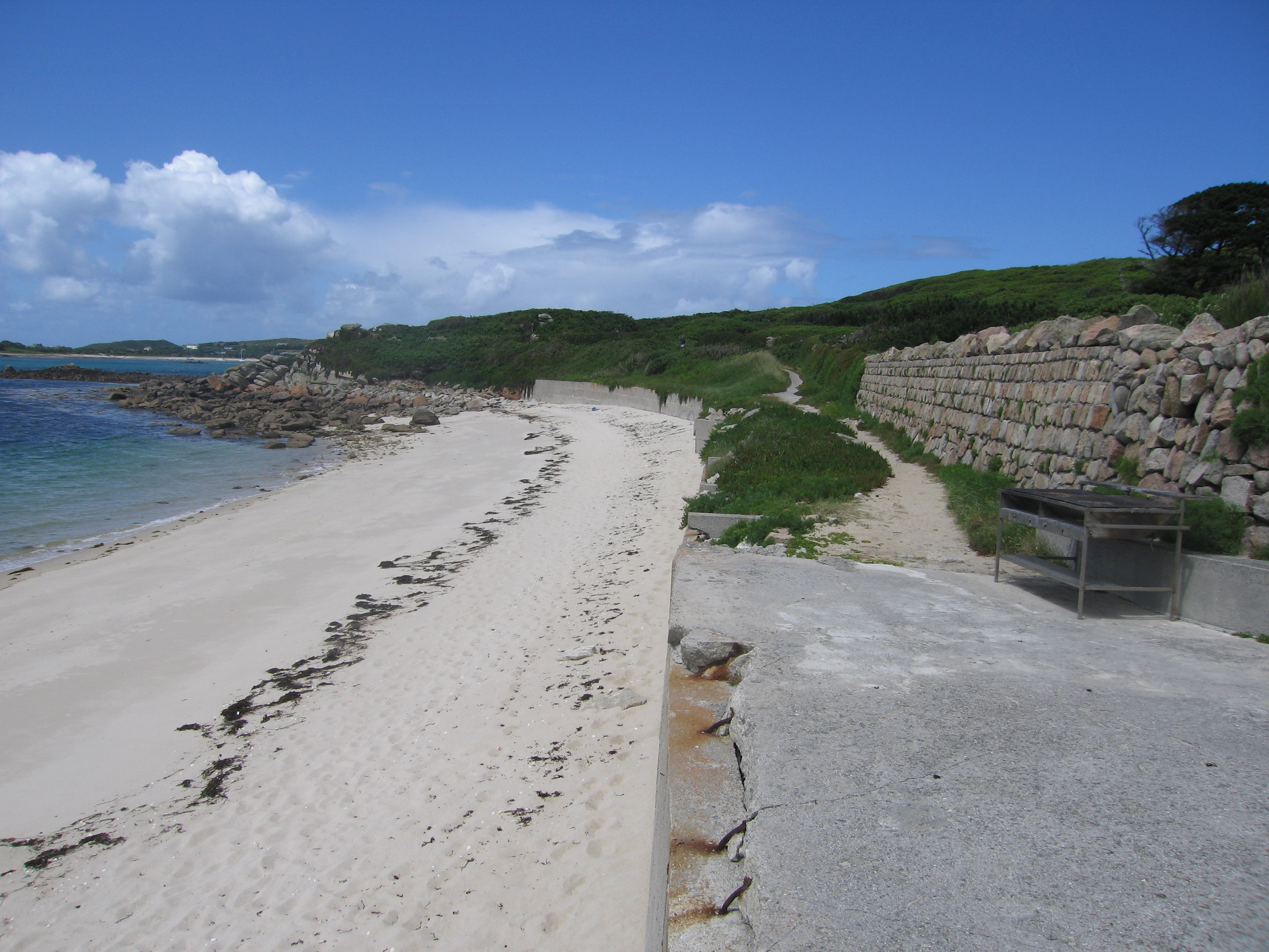 Appletree Bay, Tresco.